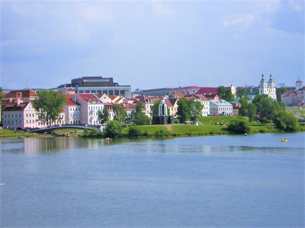 Svislach River, Island of Tears and Traetskaye suburb. Minsk, Belarus.